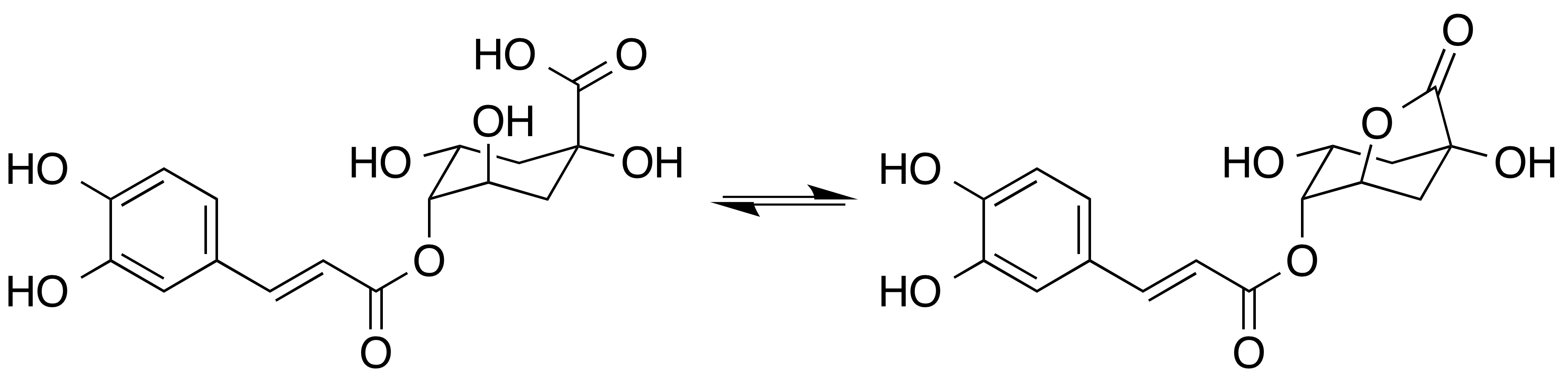 Skeletal structures of the chemical equilibrium between 4-O-caffeoylquinic acid and 4-caffeoyl-1,5-quinide